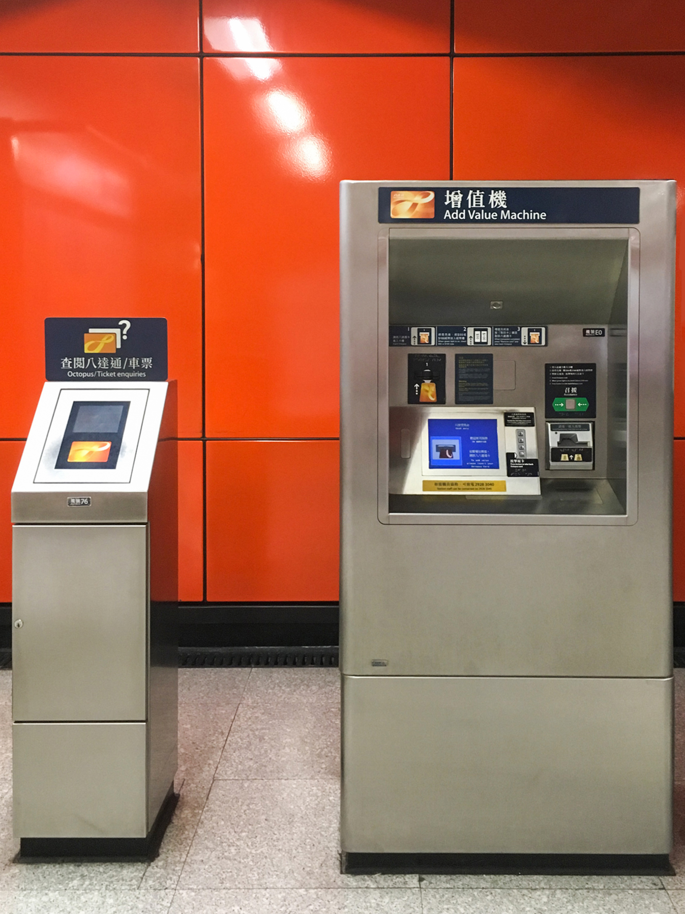 Octopus Add Value Machine